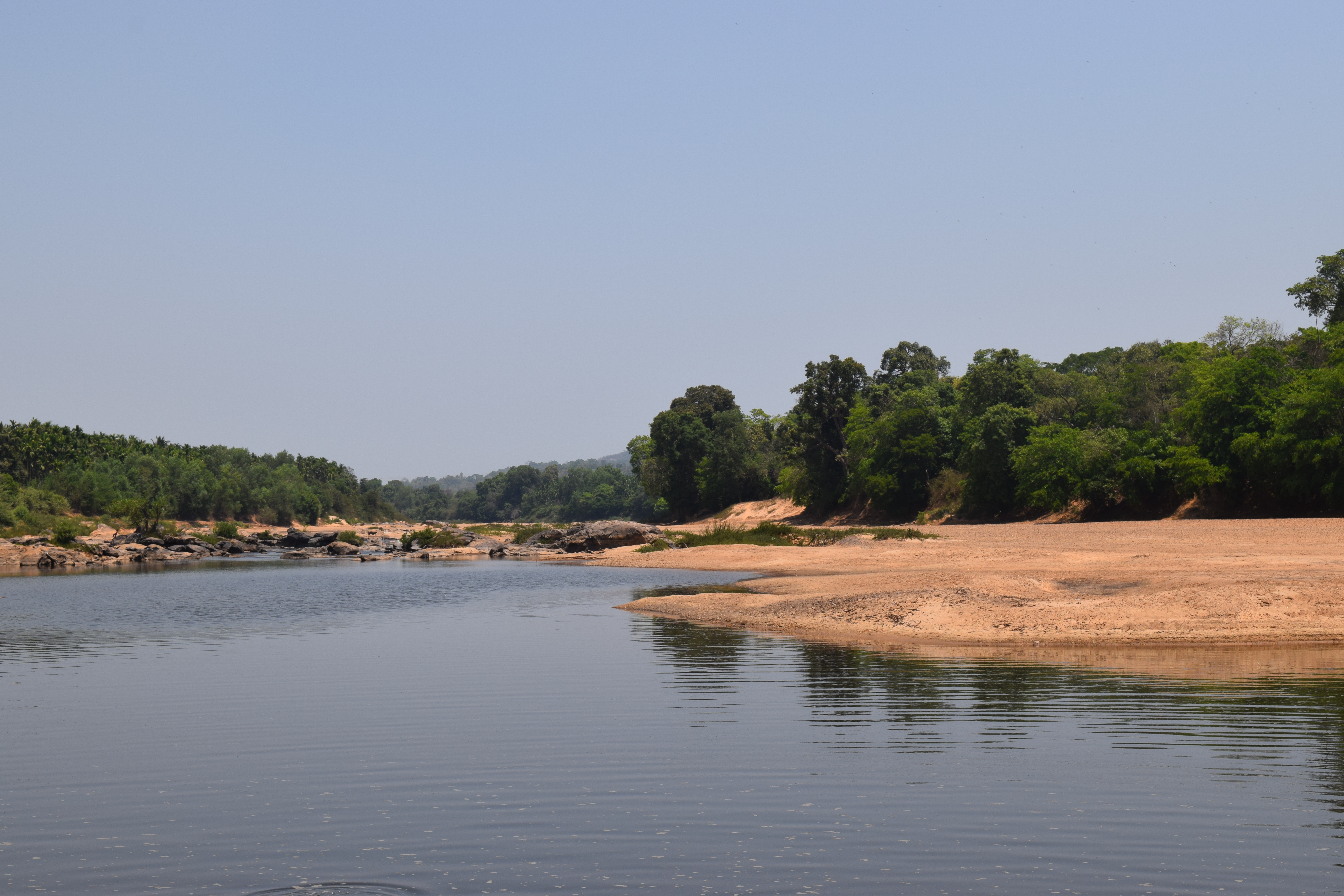 Tunga river, Chibbalugudde, Thirthahalli